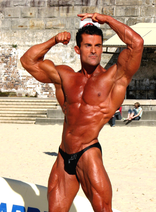 Steve Jones Natural Bodybuilder taken at Coogee Beach, NSW Australia after winning the Australasian Classic Physique title. Steve Jones is the owner of Powerzone Nutrition and Australian Natural Bodz magazine based in Australia.